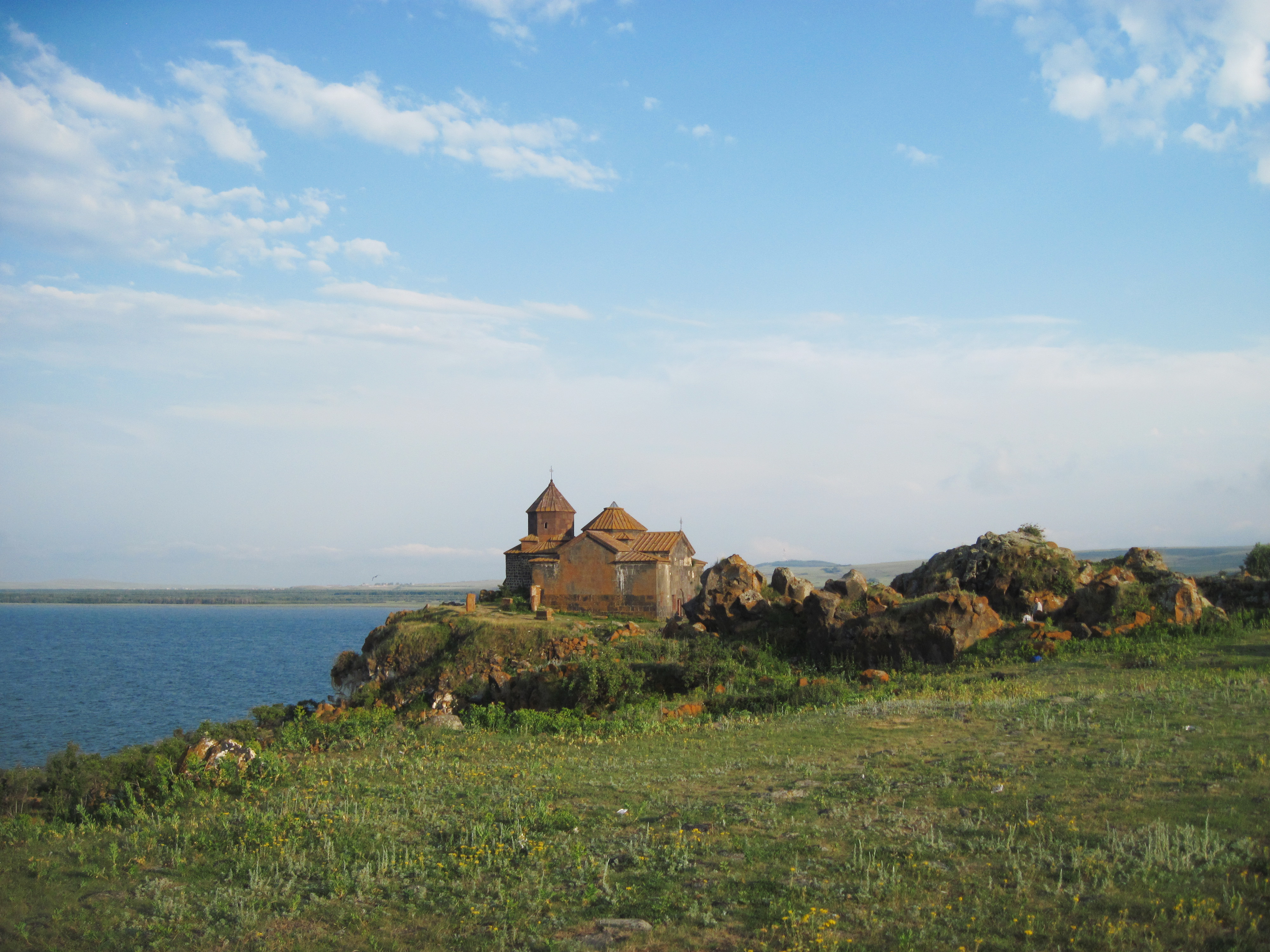 Hayravank Monastery is a 9th to 12th century Armenian monastery located just northeast of the village of Hayravank along the southwest shores of Lake Sevan in the Gegharkunik Province of Armenia